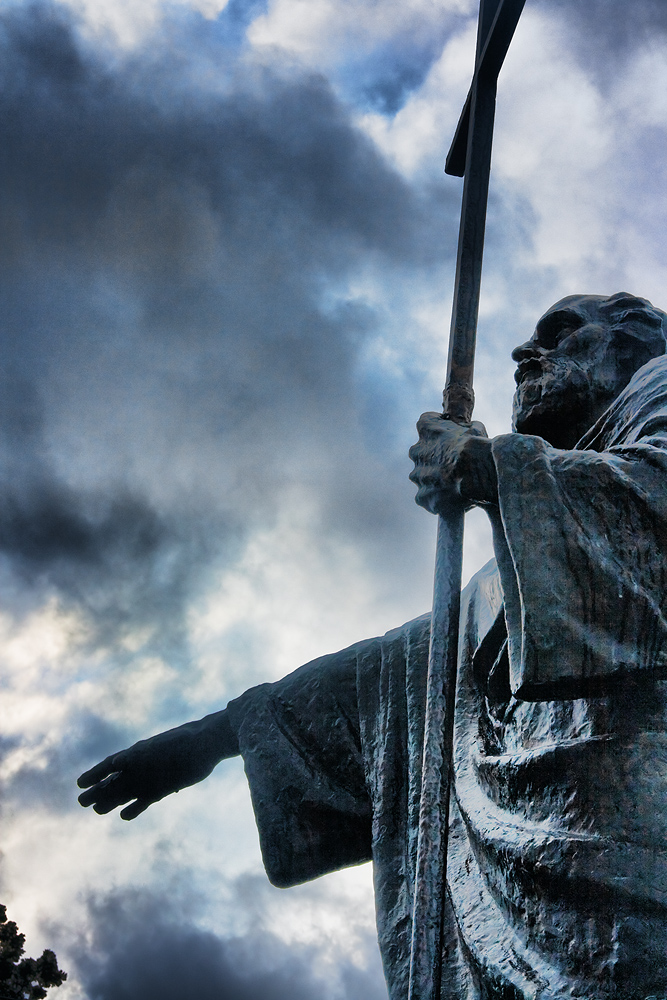 Monument of Saint Andrew in Chersonesos. Crimea.